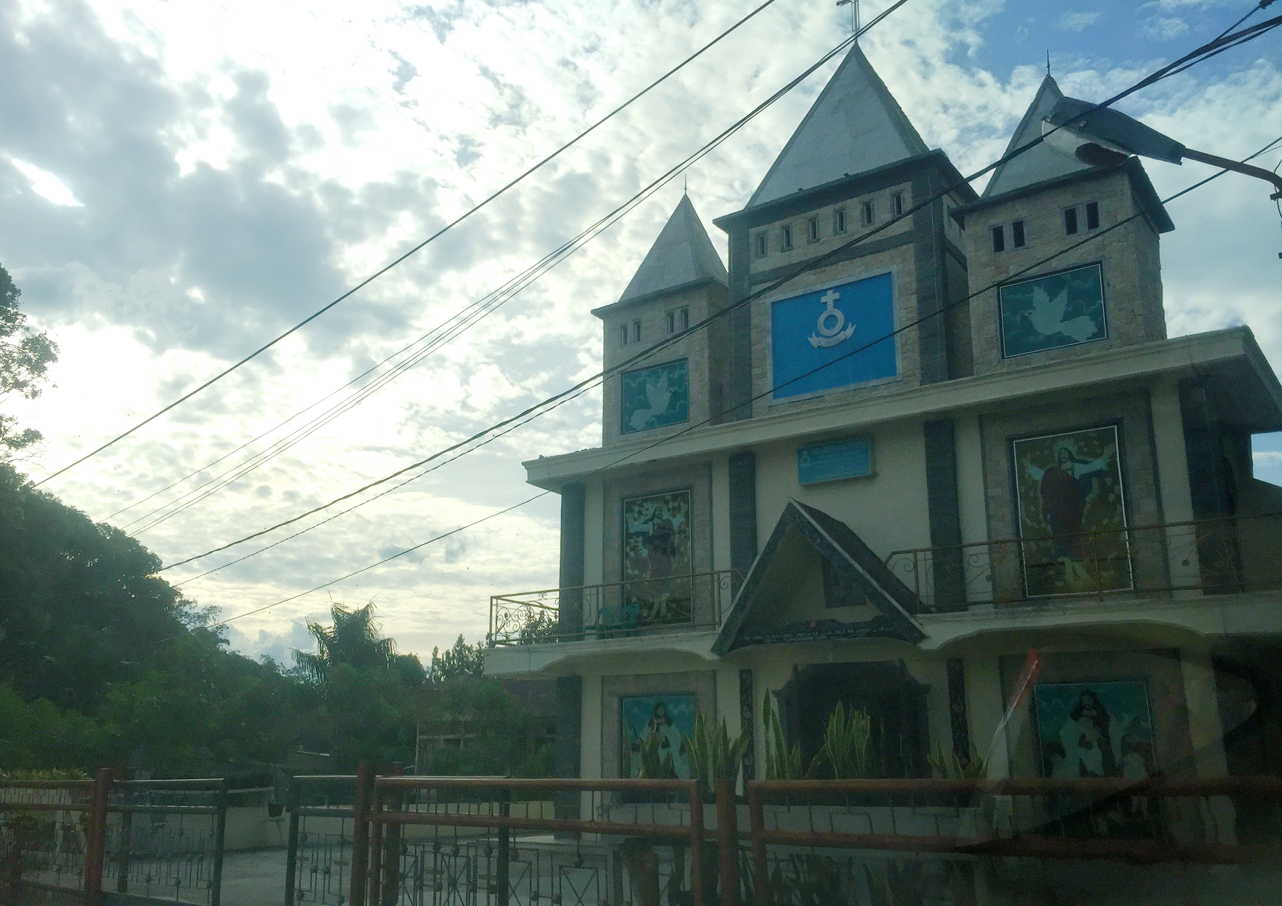 HKBP Pangururan Kota, Church in Pangururan, Samosir